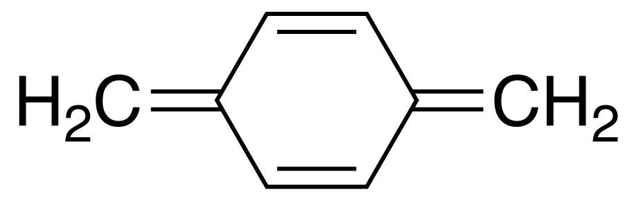 Skeletal structure of para-xylylene